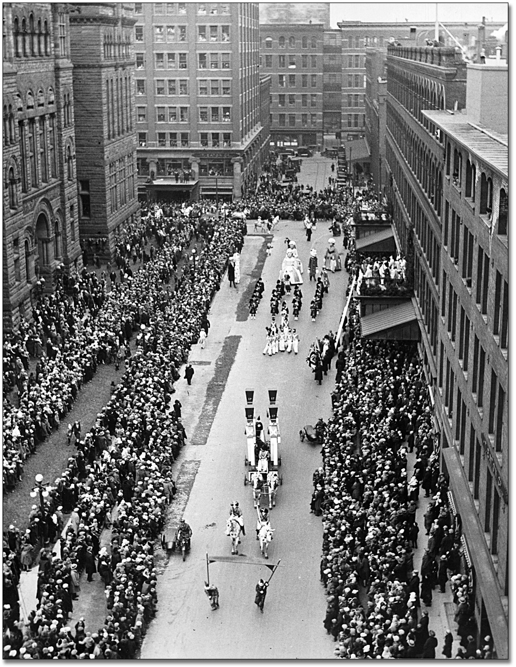 Eaton's Santa Claus Parade, 20 November 1926, with views of Toronto's Old City Hall, Eaton's Main Store and the Eaton's Annex. Archives of Ontario, neg. ref. no. F 229-308-0-807, copyright expired. Canadian copyright expired at the end of 1976, i.e. before January 1, 1996, and thus this image is also in the PD in the U.S.